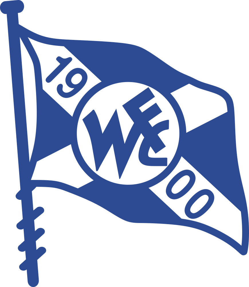 Historich logo from german football club Weißenseer FC (ca. 1931)